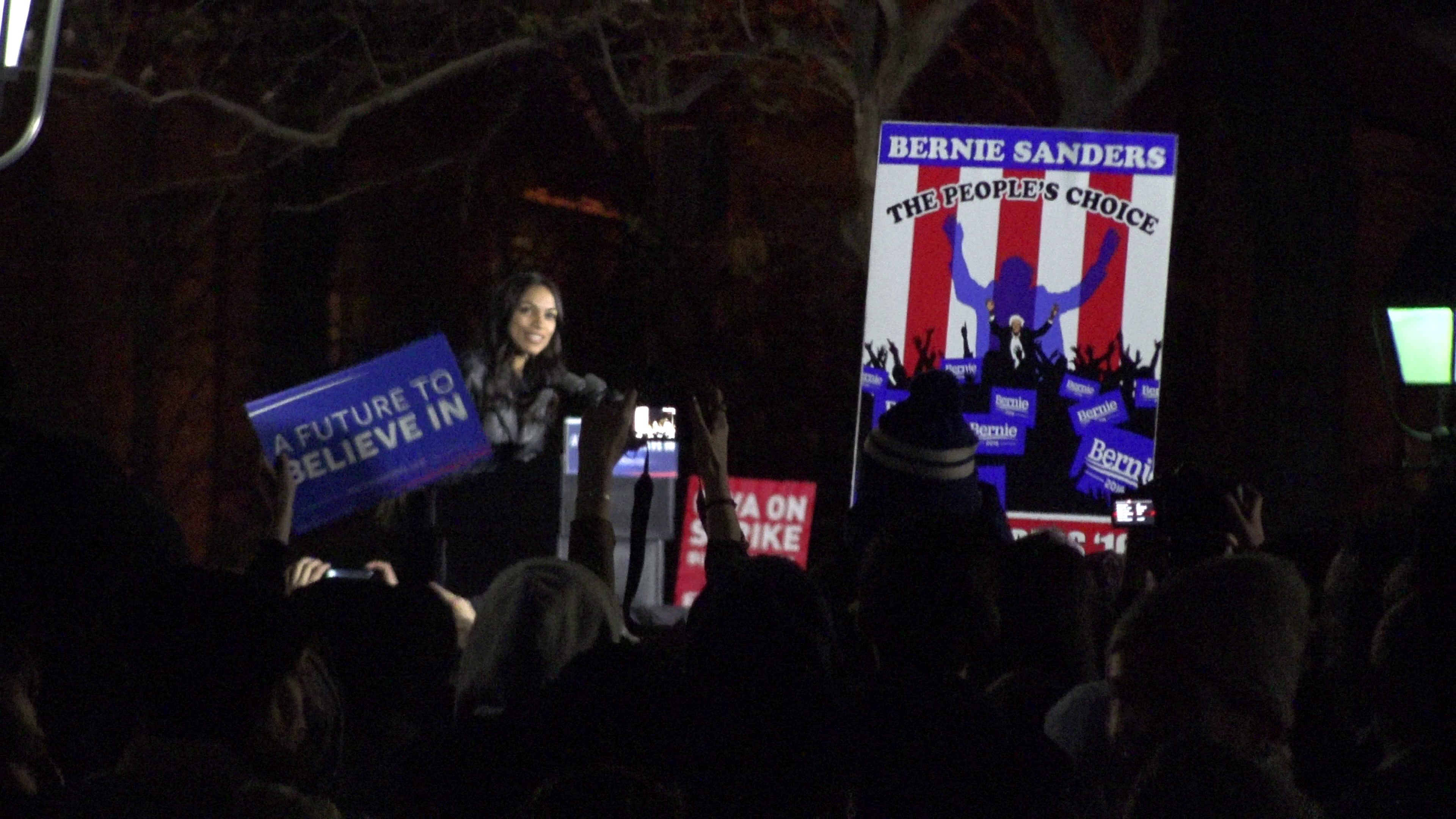 Rosario Dawson at the Bernie Sanders rally in Washington Square Park